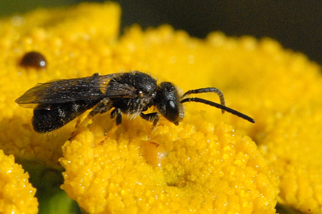 Lasioglossum lativentre from Commanster, Belgian High Ardennes .